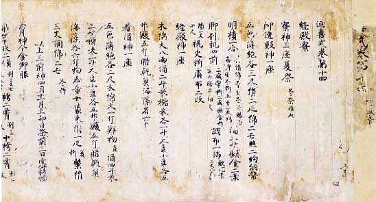 Engishiki